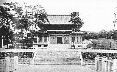 Hakubun Temple(Prince Ito Memorial Temple)